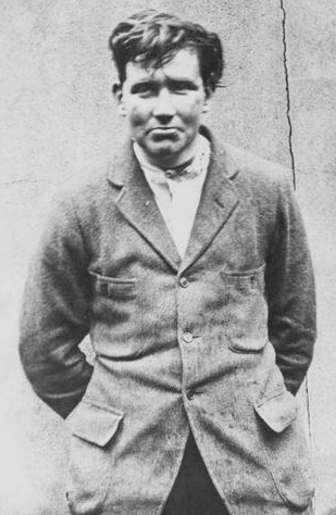 Photograph of Reginald Dunne, executed 1922.